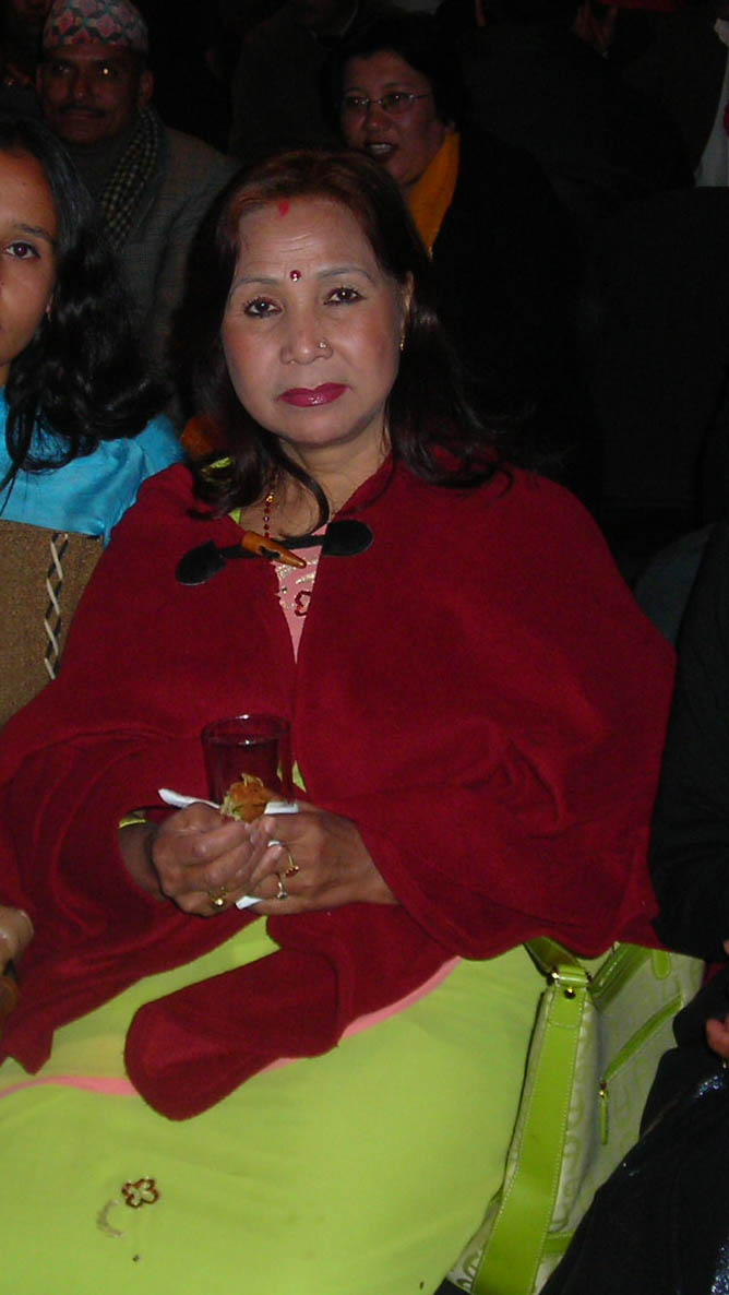 Basundhara Bhushal in a program in Kathmandu in 2007.